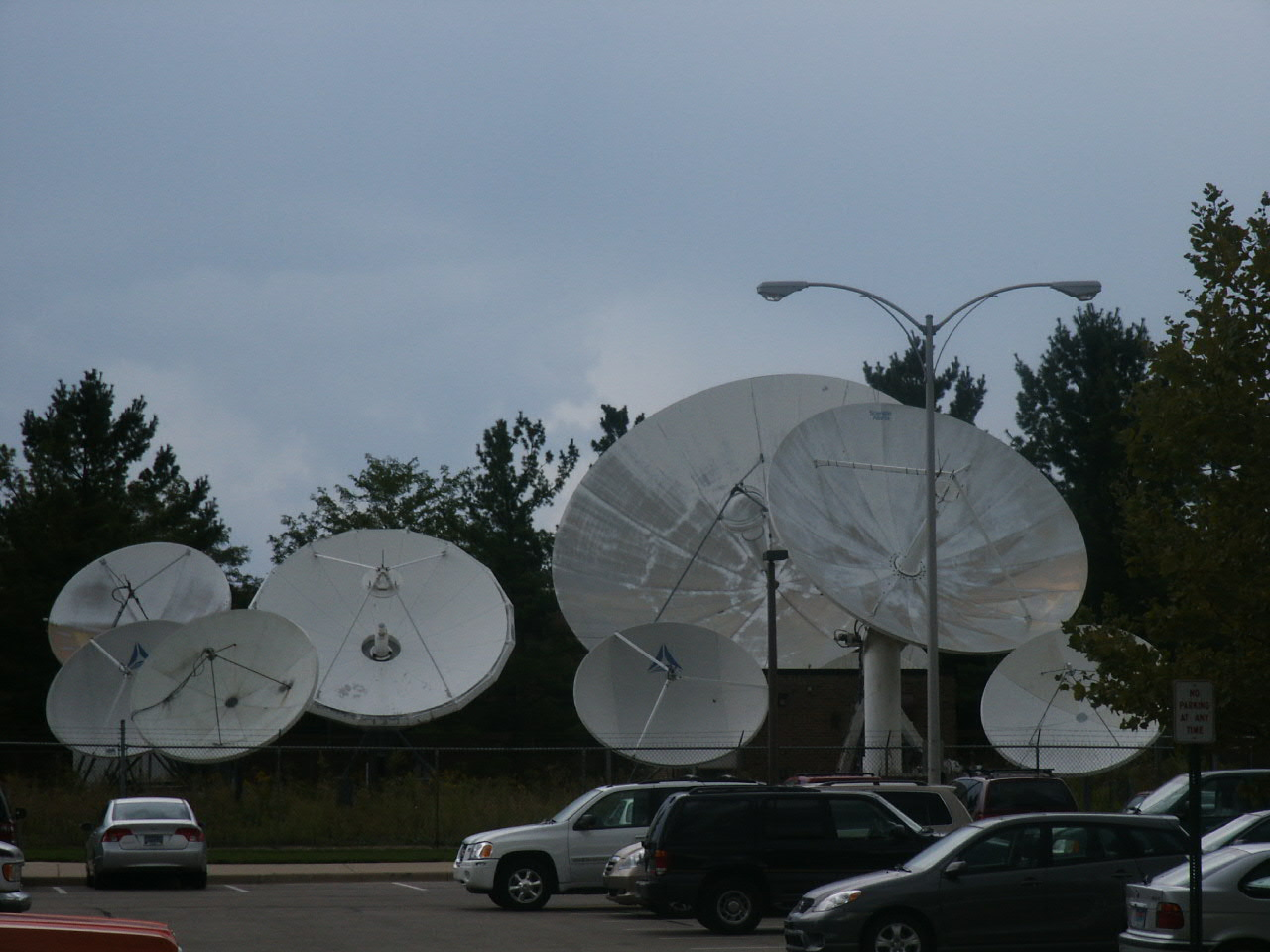 College of Communication Arts and Sciences, Michigan State University, Photo taken by Branislav Ondrasik